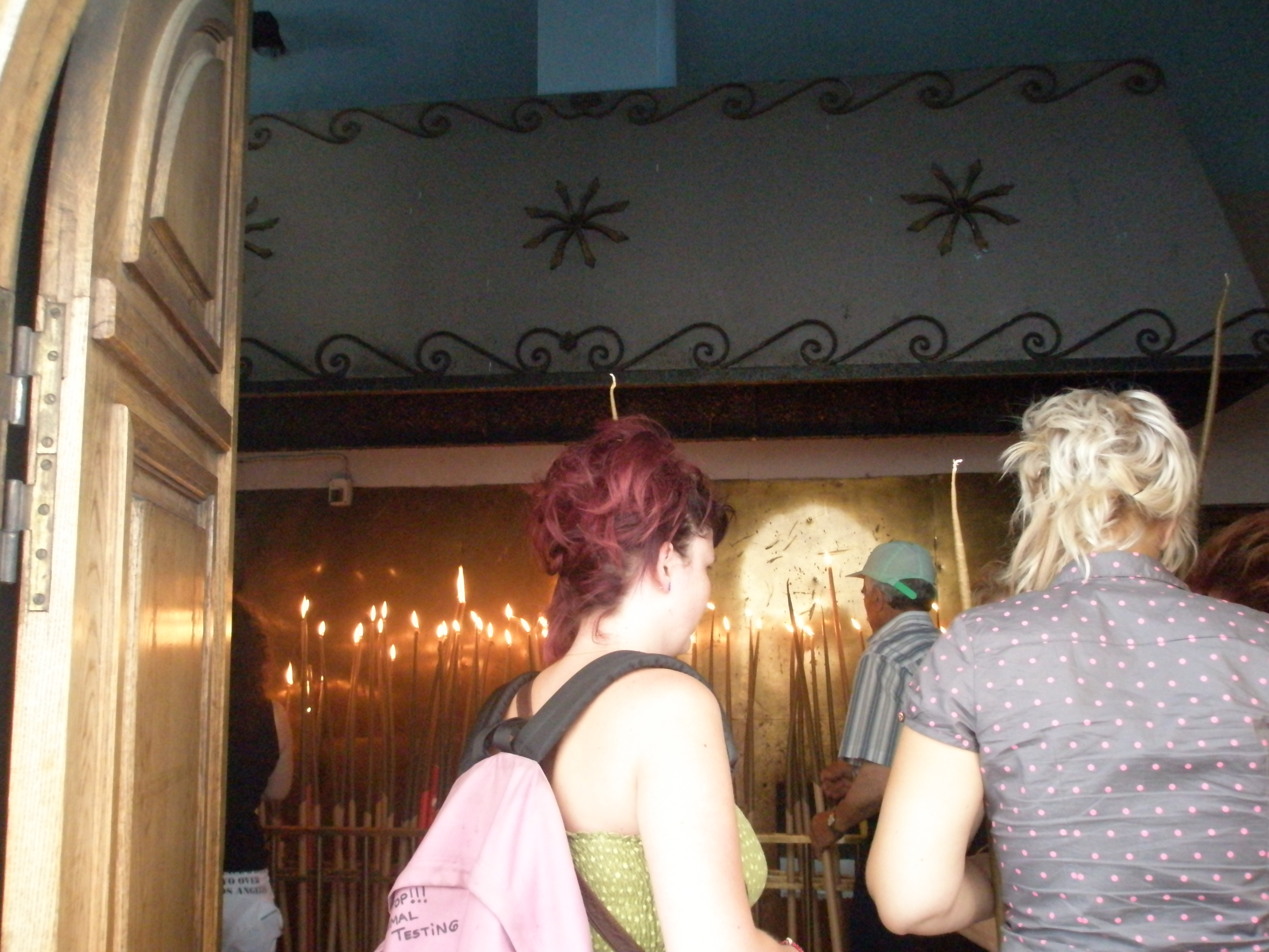 lighting candles in Panagia Tinou church special room